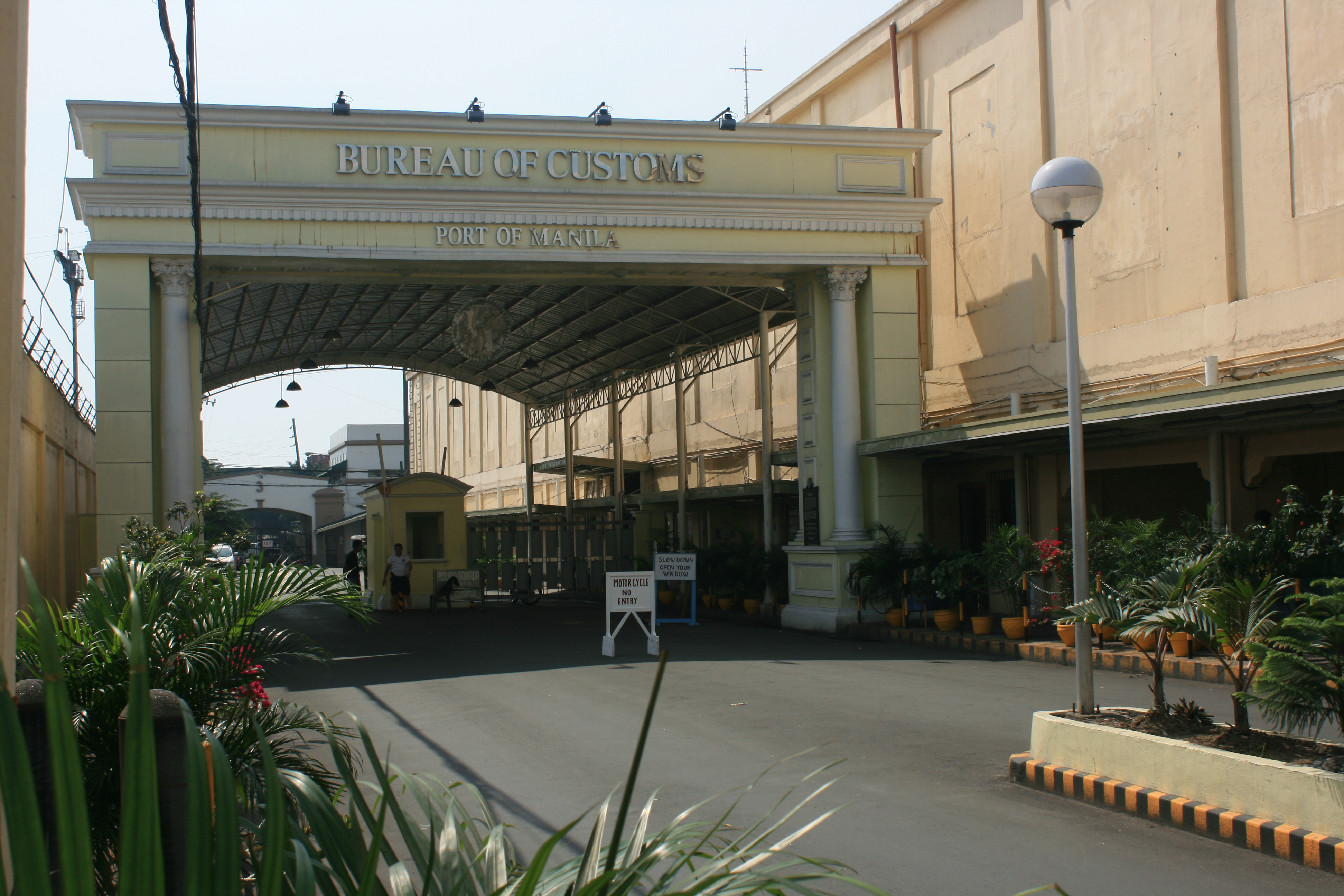 Bureau of Customs in Manila, Philippines